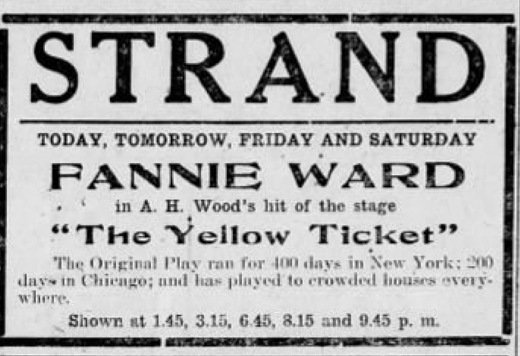 Strand Theater, Allentown PA, newspaper advertisement for the American film The Yellow Ticket (1918).